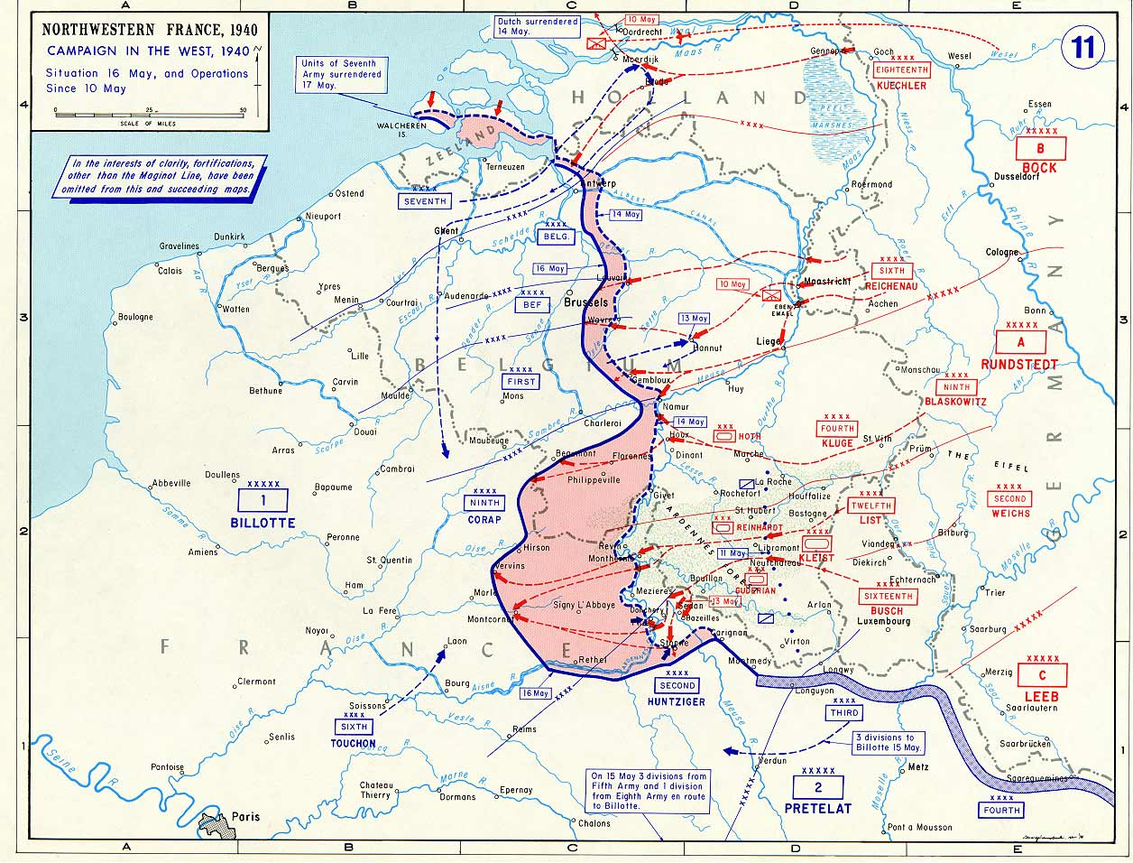 German offensive of 1940 in the Netherlands